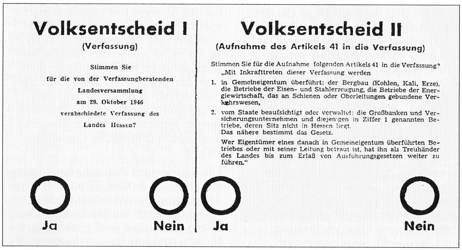 Ballot for the referendum about the constitution of Hesse 1946.